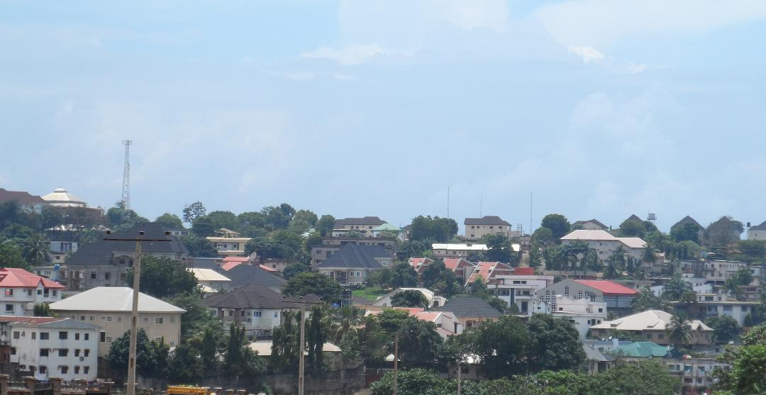 GRA Onitsha